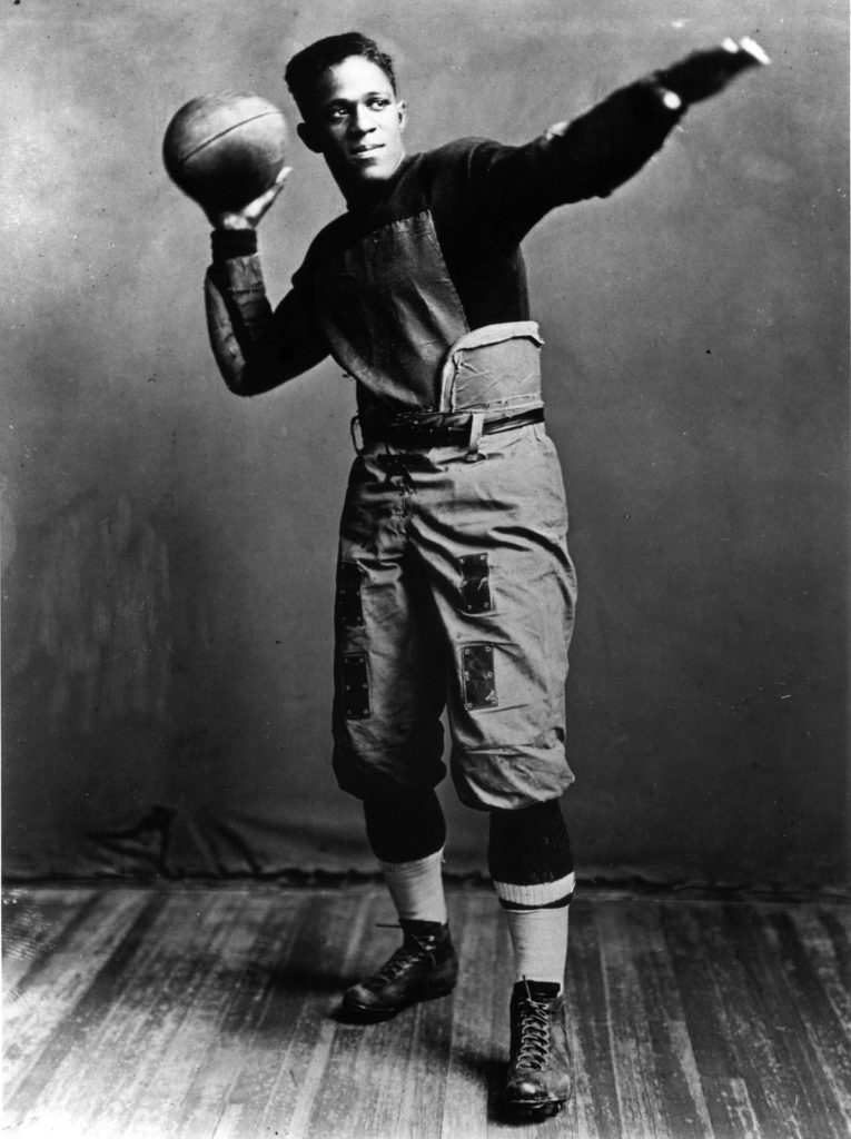 Fritz Pollard posing for a pass